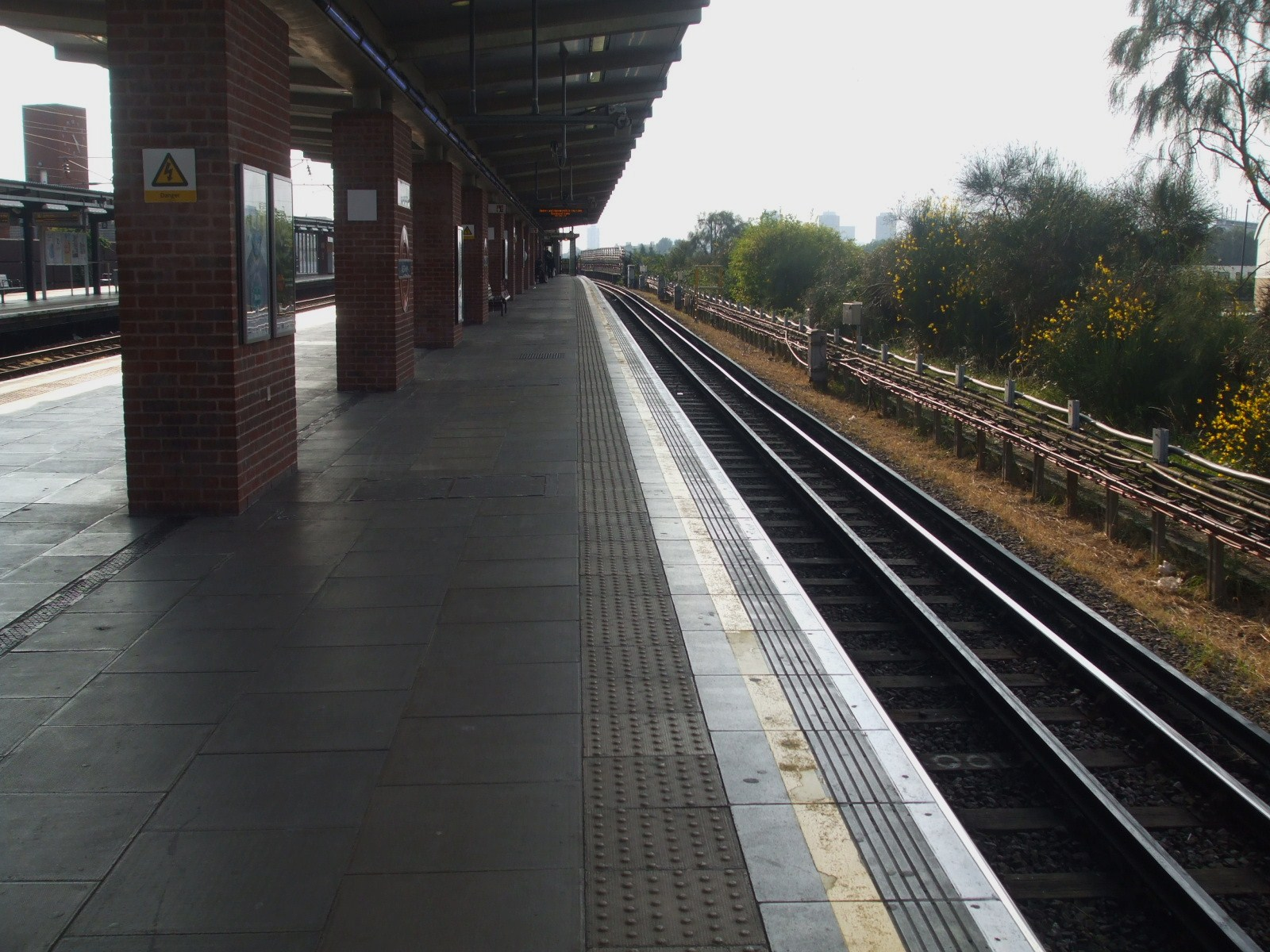 West Ham station District/Hammersmith & City line eastbound platform looking west. Mainline (c2c) platforms visible on far left.